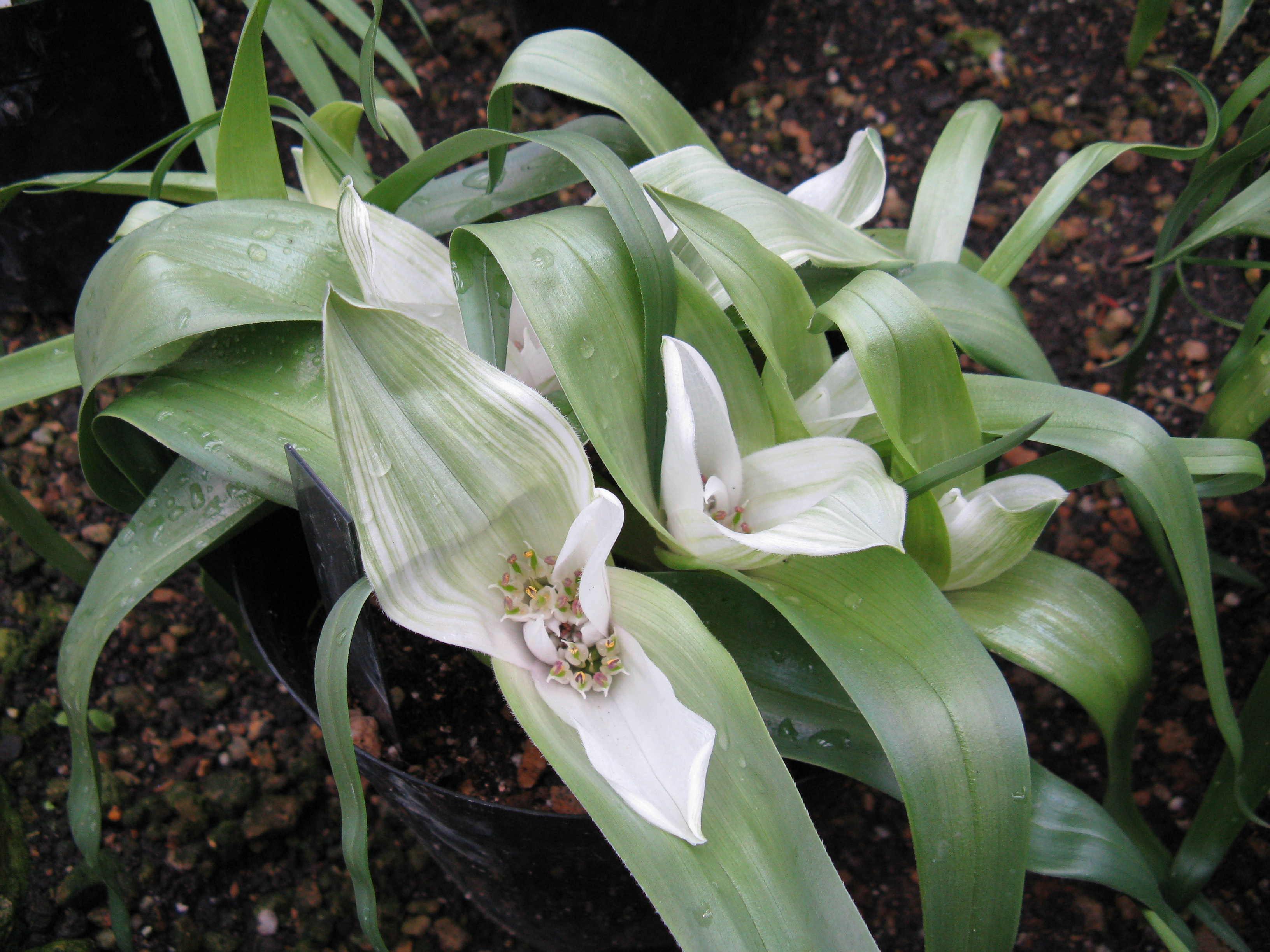 Scientific name Androcymbium ciliolatum Place:Osaka Prefectural Flower Garden,Osaka,Japan